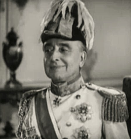 Ferdinand Gottschalk in King Kelly of the U.S.A. (1934) - cropped screenshot